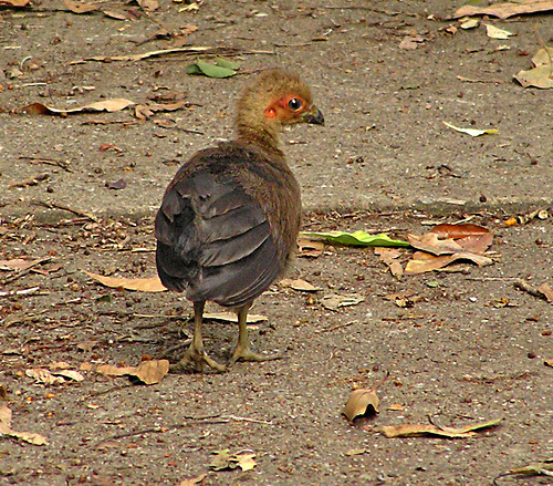 Brush turkey chick